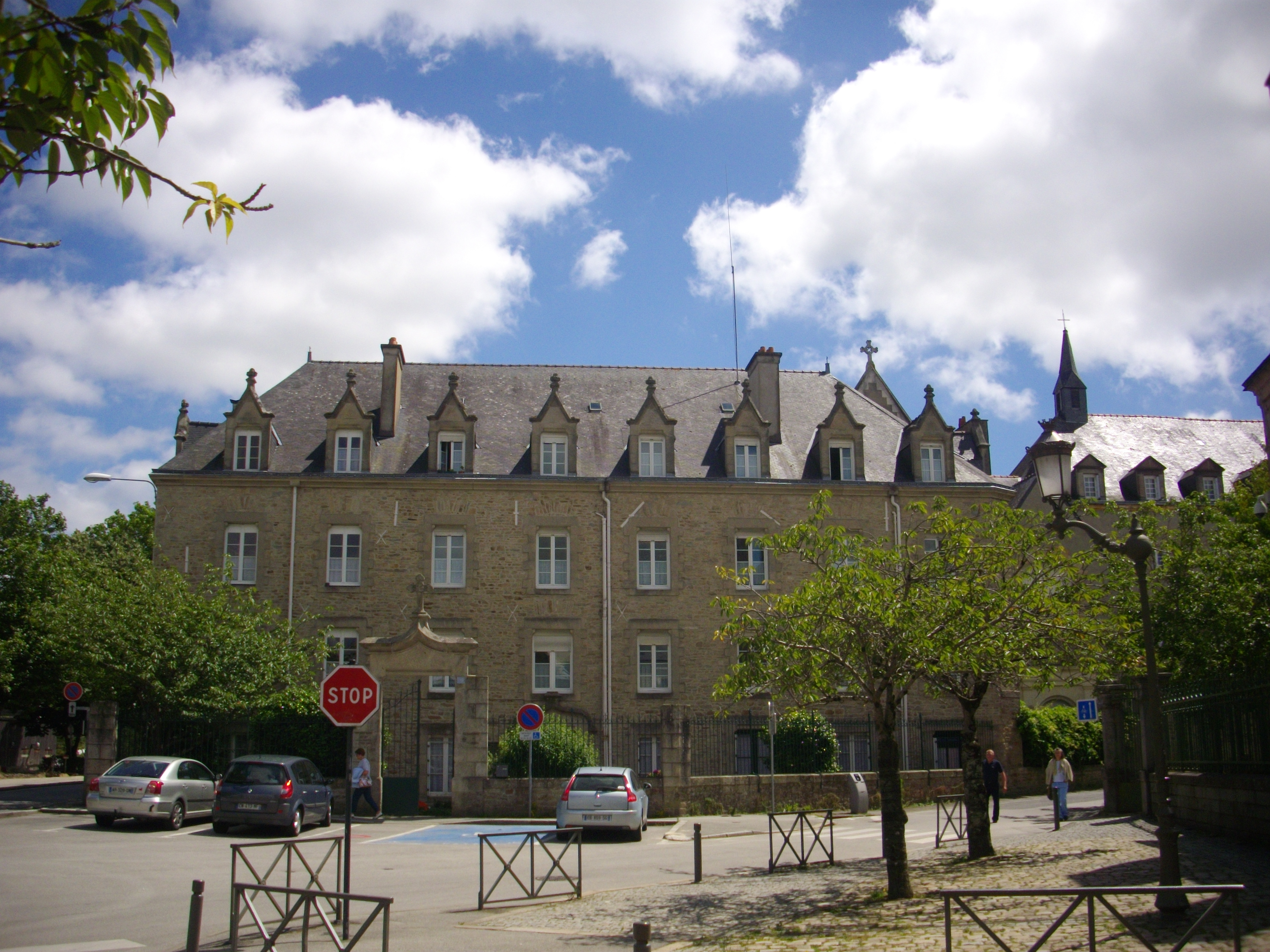 Convent of the Sisters of Saint Louis Charity in Vannes (Morbihan, France)